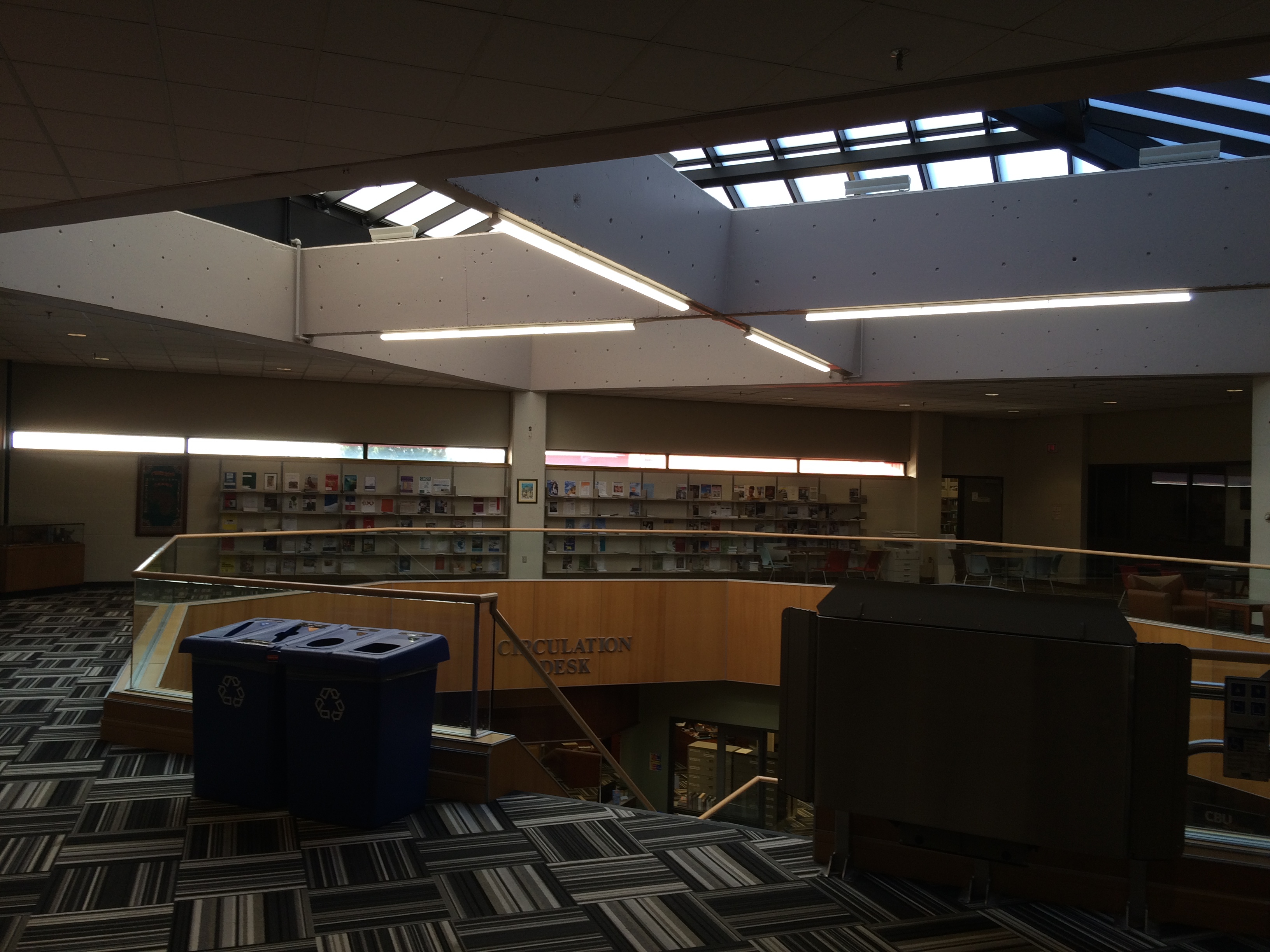 Part of the upper floor of the library.